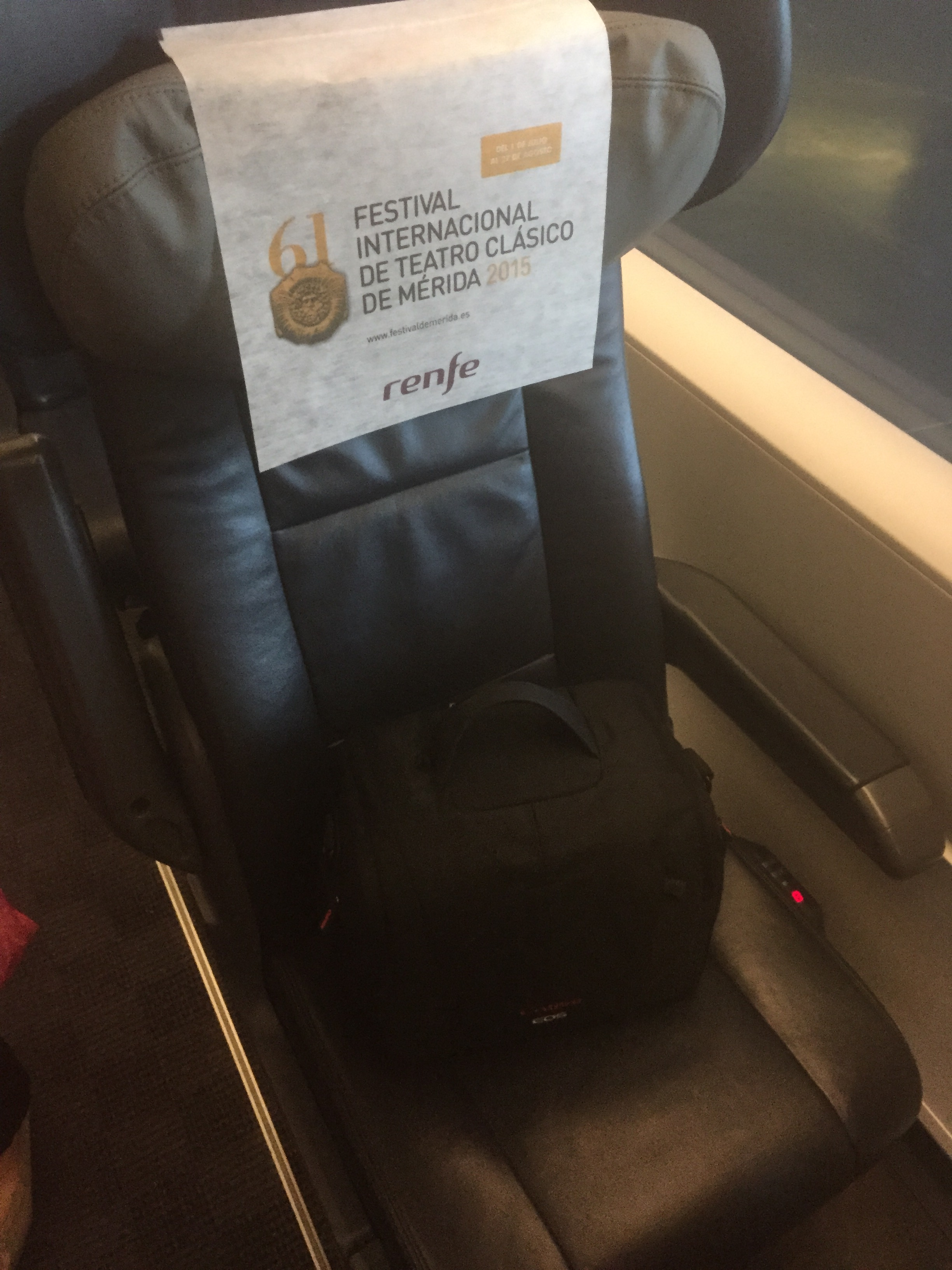 Renfe AVE MAD-BCN express service first class.